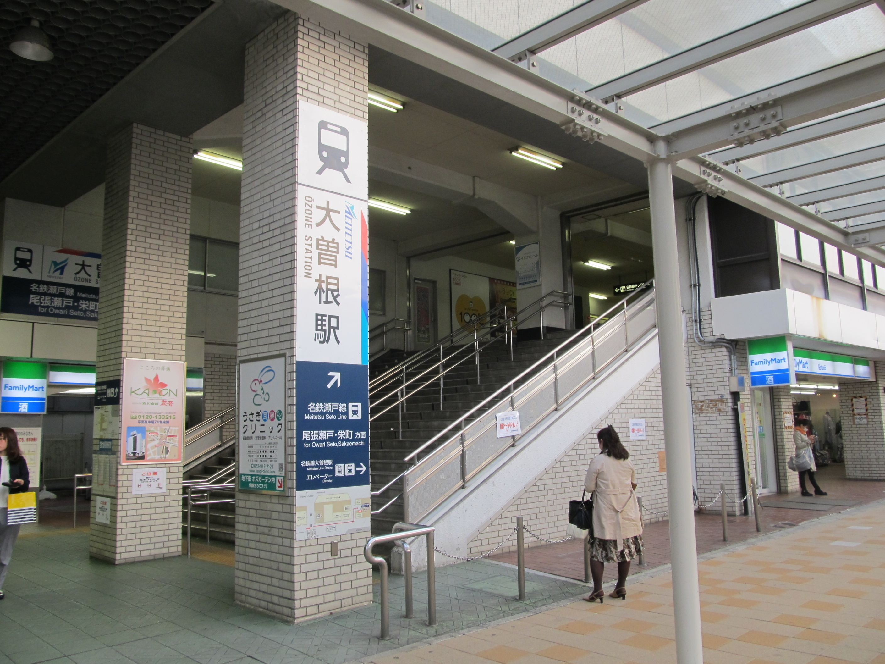 Nagoya Railroad Seto Line Ōzone Station Gate